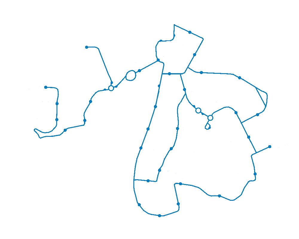 Žilina trolleybus map 2007